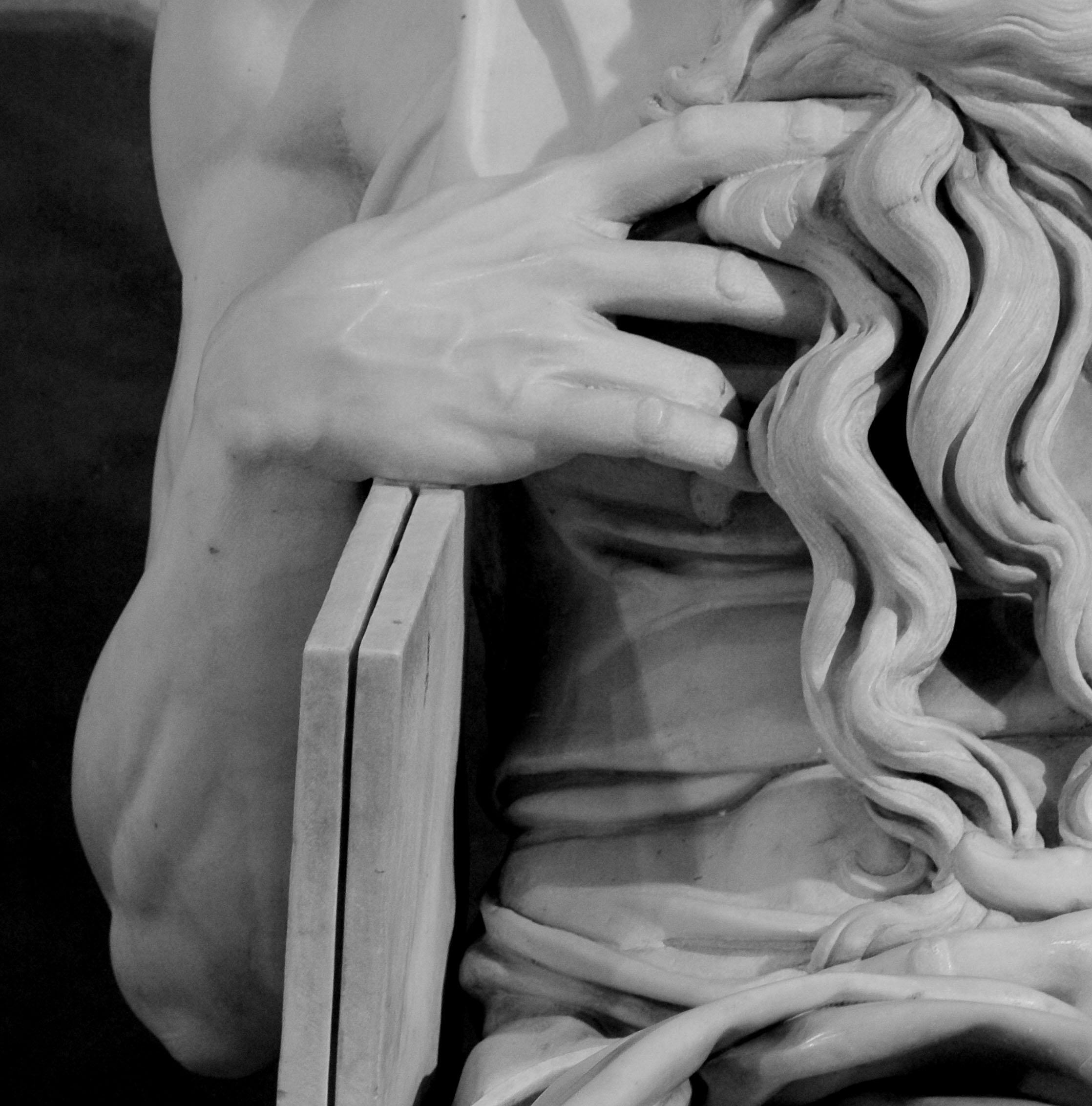 Michelangelo's Moses detail.